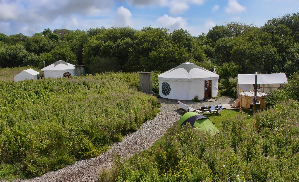 Eco family holidays